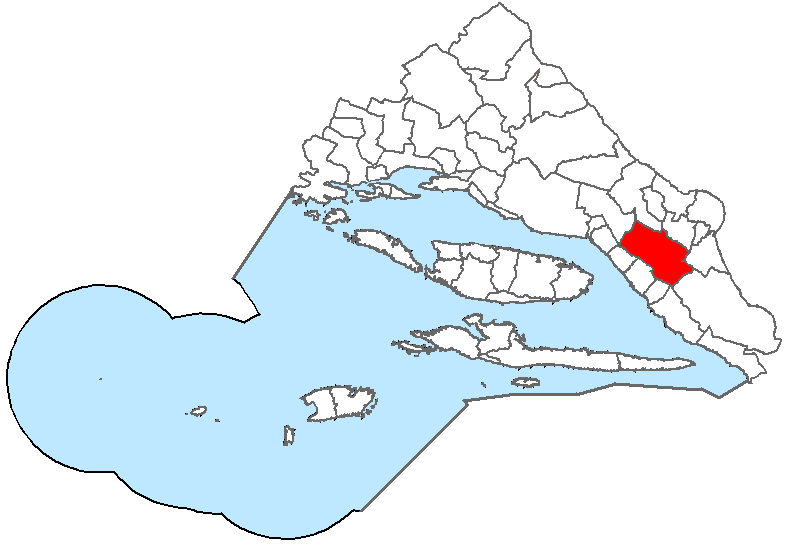 Position of municipality inside Split-Dalmatia County